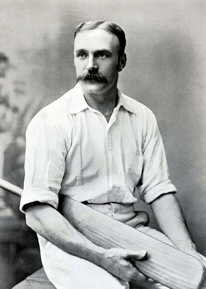 Sport, Cricket, Circa 1895, Frank Sugg, He played for both Lancashire (1887-1899) and England in1888.